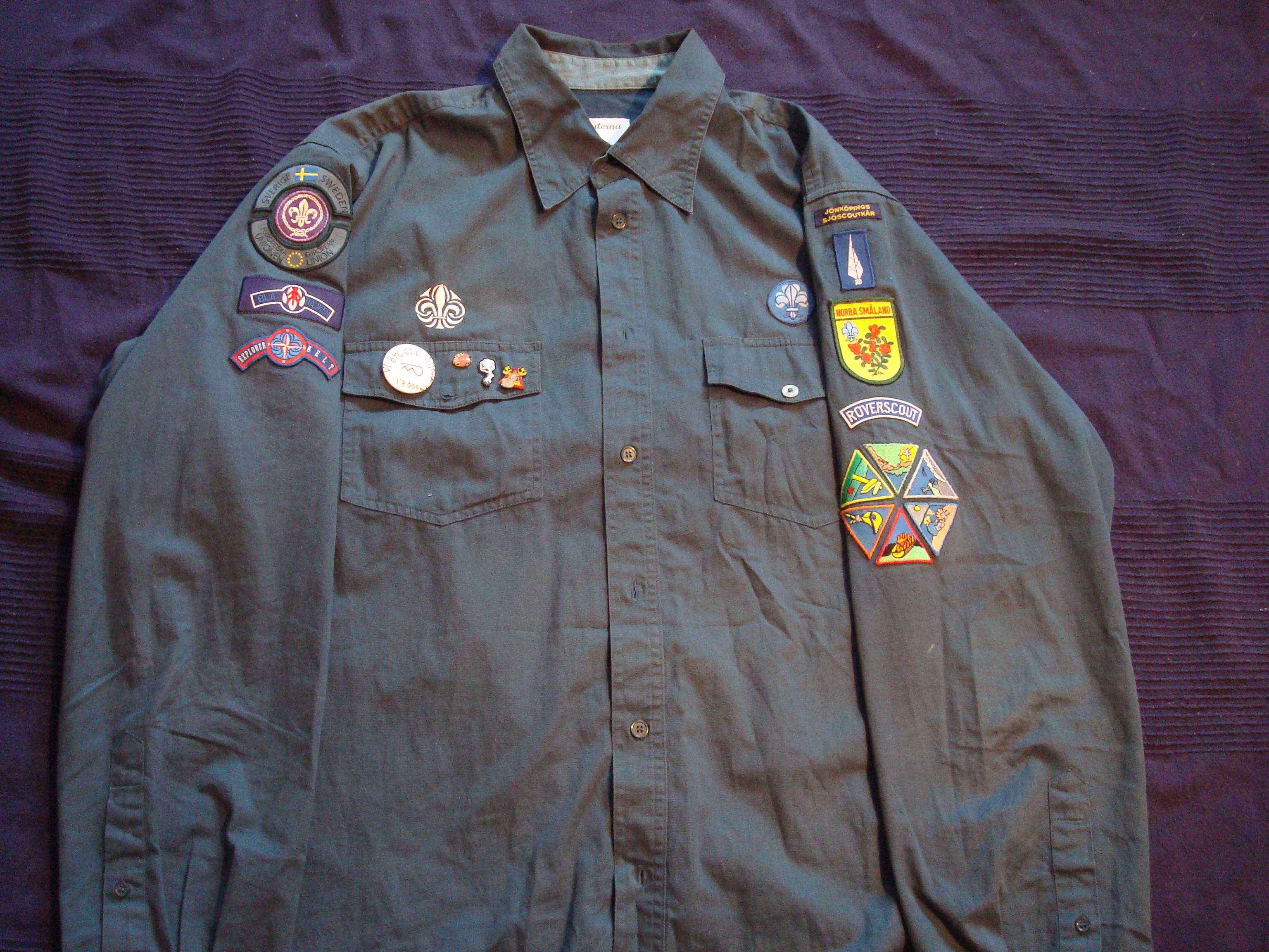 The shirt in the new scout suit of Swedish scouting, with badges (SSF).